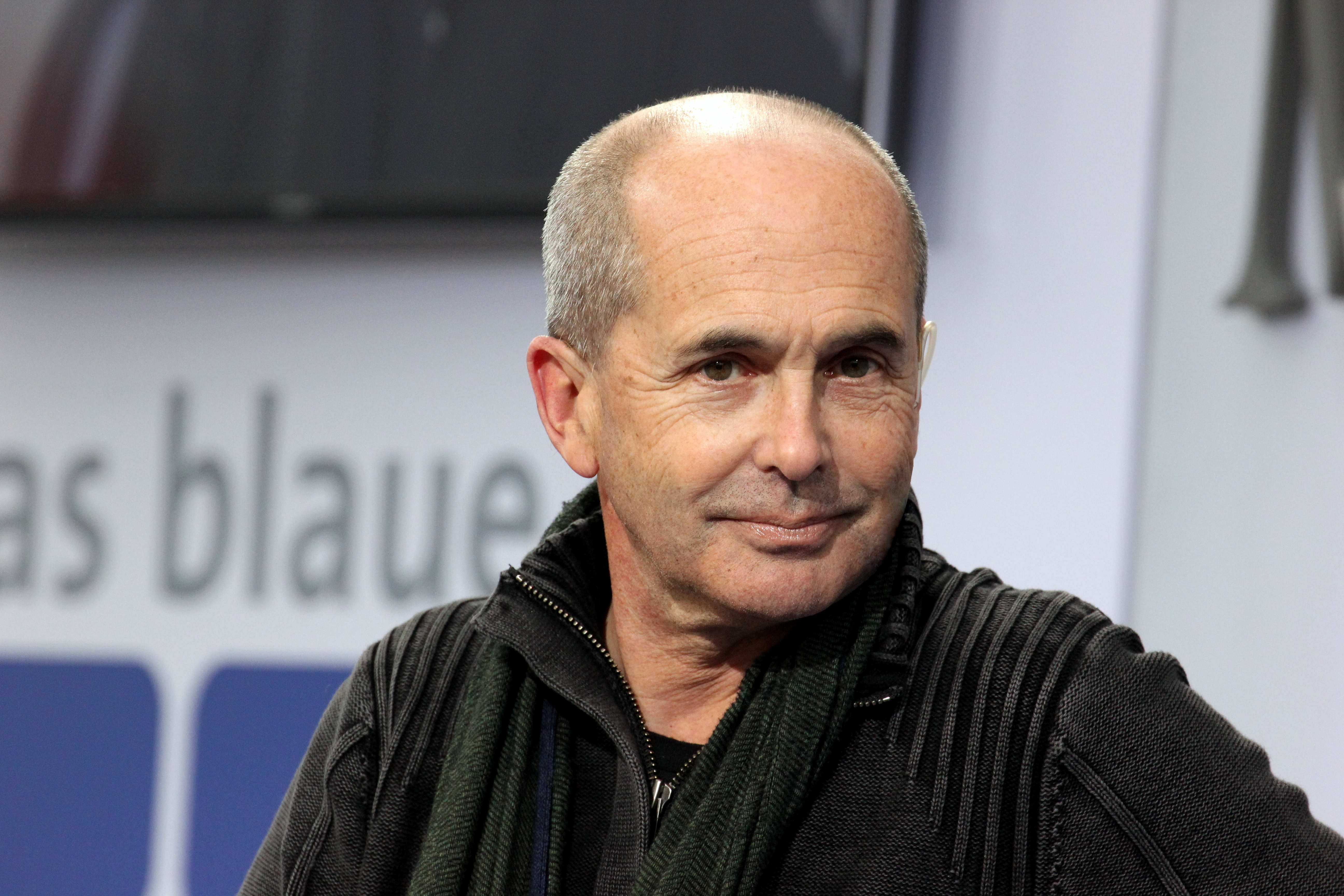 Don Winslow at Leipzig Book Fair 2016